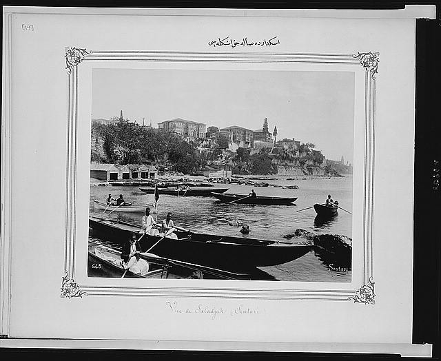 Port of Salacak, Üsküdar between 1880 and 1893